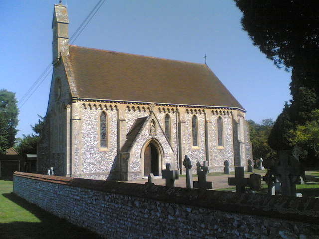 St Edward The Confessor, Sutton Park. Historic grade II listed Catholic church.